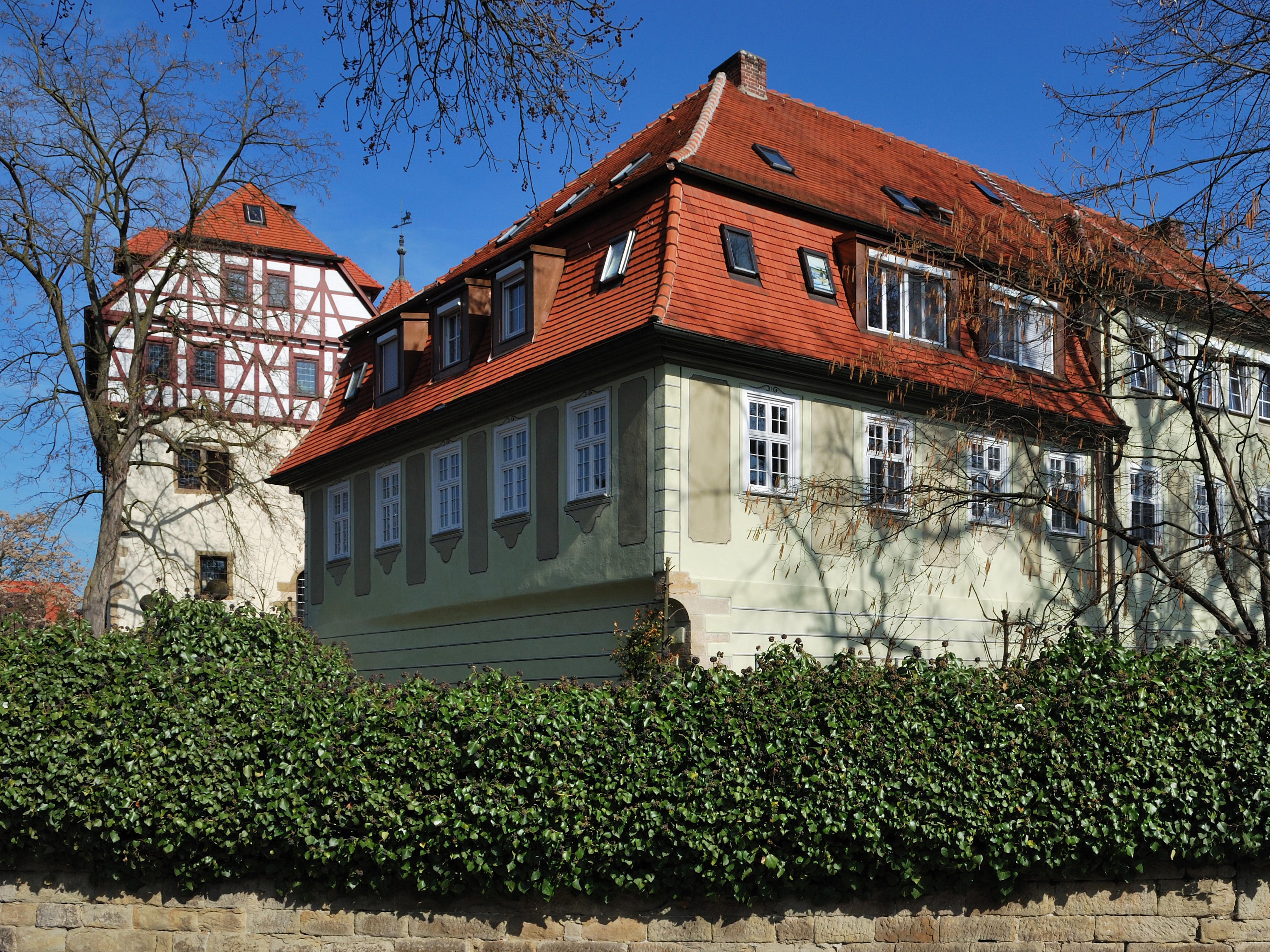 The Old Castle and the New Castle in Münchingen in Southern Germany.